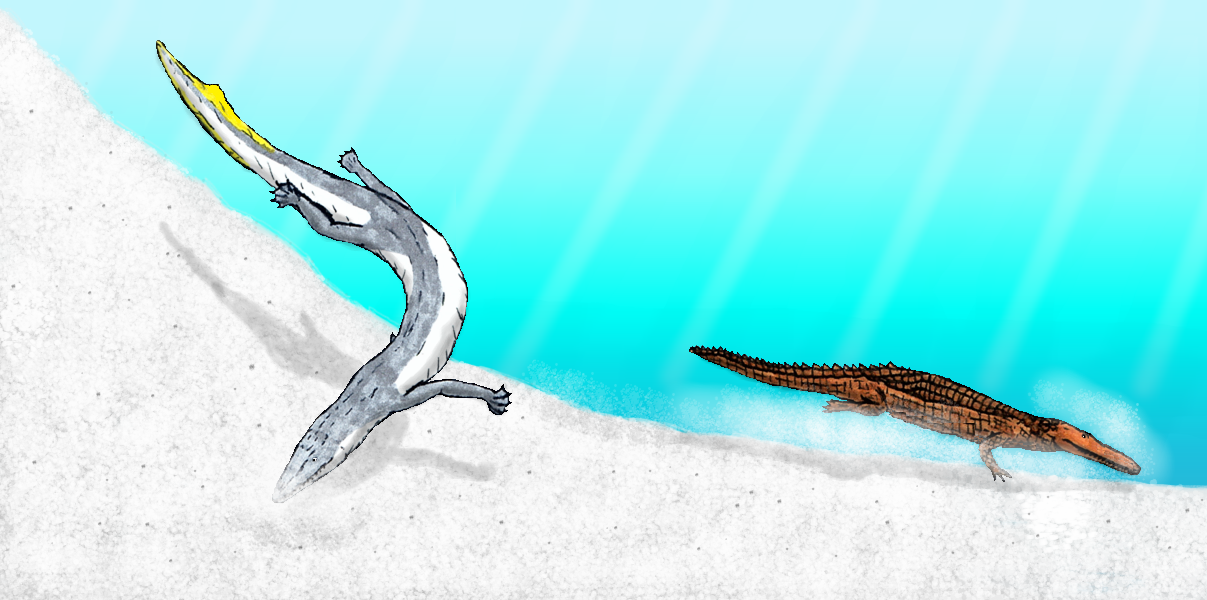 The primitive mosasaur Dallasaurus and the primitive neosuchian Woodbinesuchus are searching for food in the mud. Both creatures lived around the beginning of the Late-Cretaceous in Dallas. Dallasaurus grew to a maximum size of 1,2 meters, while Woodbinesuchus grew to a maximum size of 3 meters, however, the individual on this illustration is likely to be a little smaller, around 2 meters in size.